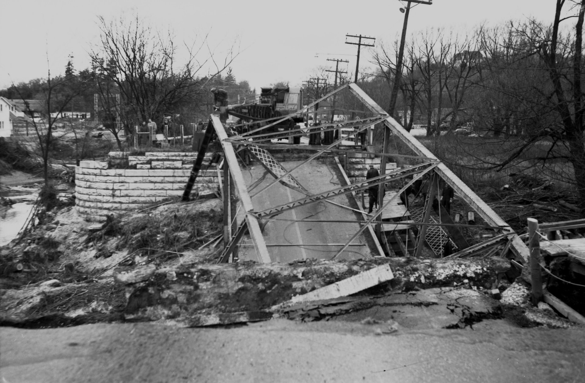 Sixty-two years ago this Saturday, on October 15, 1954, Hurricane Hazel swept through this part of Ontario, ripping homes from their foundations, sundering bridges and roadways, and killing 81 people in Ontario, mostly in Toronto. The deadliest Hurricane of its season, it killed 400 people in Haiti and devastated their economy. To give you some idea of its magnitude, this photo was taken looking north across the Yonge St. bridge over the Don River, near York Mills. Creator: Salmon, James Victor, Canadian, 1911-1958 Date: 1954 Identifier: S 1-2158C Format: Picture Rights: Public domain Courtesy: Toronto Public Library. More information: (view details and larger image) This image is available from the Toronto Public Library under the reference number S 1-2158CThis tag does not indicate the copyright status of the attached work. A normal copyright tag is still required. See Commons:Licensing for more information. English | français | +/−